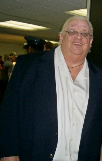 Dusty Rhodes at a group party